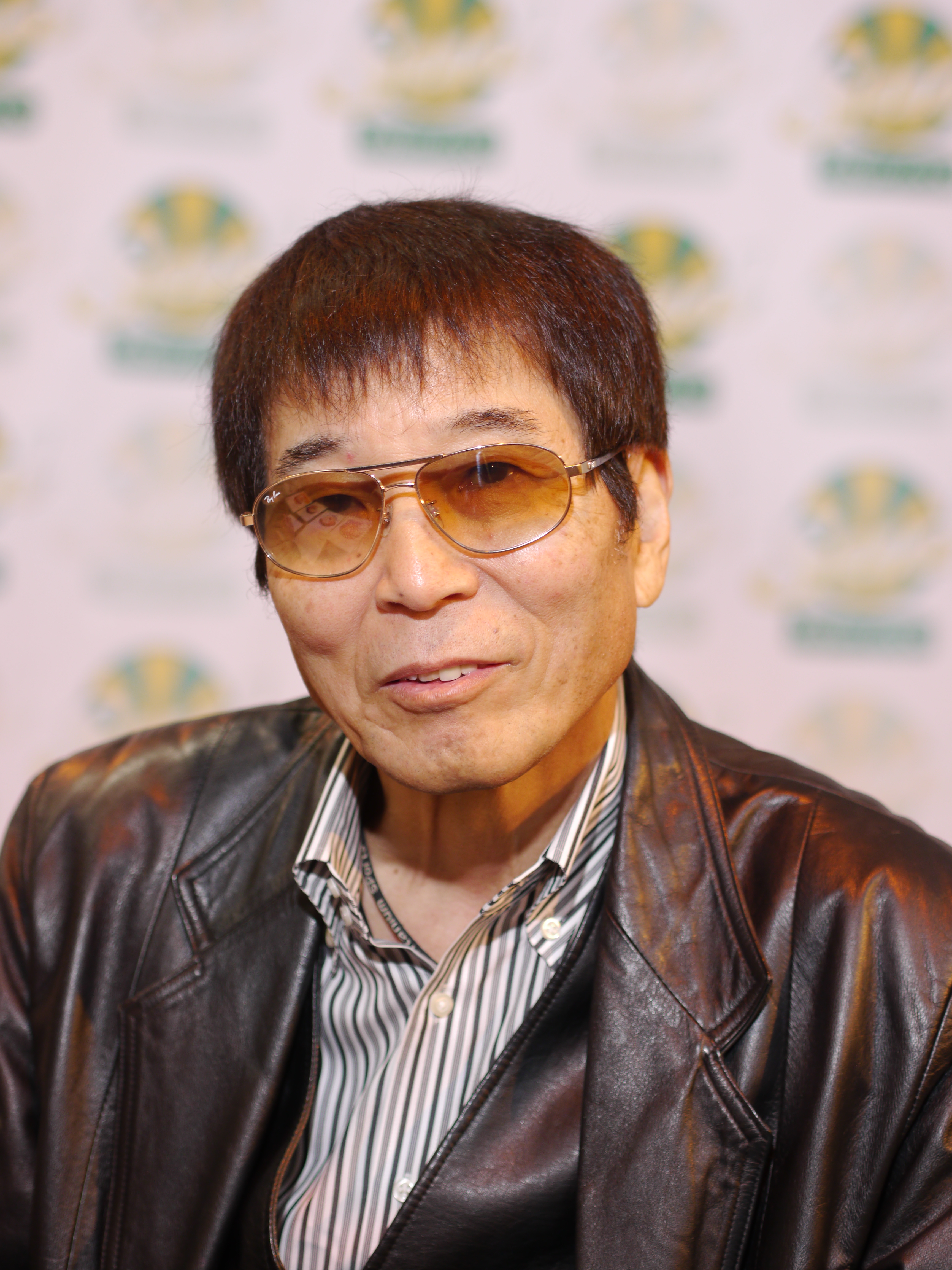 Japan Expo Festival, 4th edition, 2012